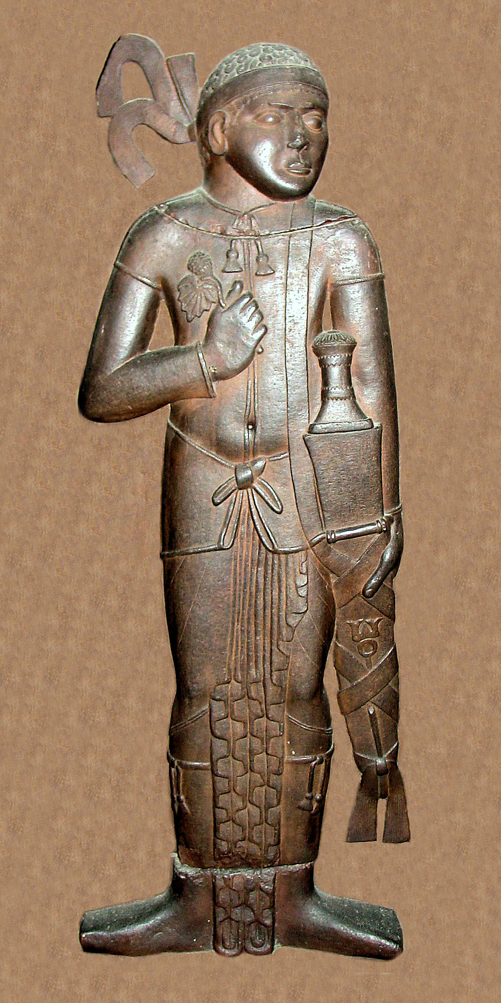 Bharhut Stupa Yavana. Indian relief of probable Indo-Greek king, possibly Menander, with the flowing head band of a Greek king, northern tunic with Hellenistic pleats, and Buddhist triratana symbol on his sword. Bharhut, 2nd century BC. Indian Museum, Calcutta.